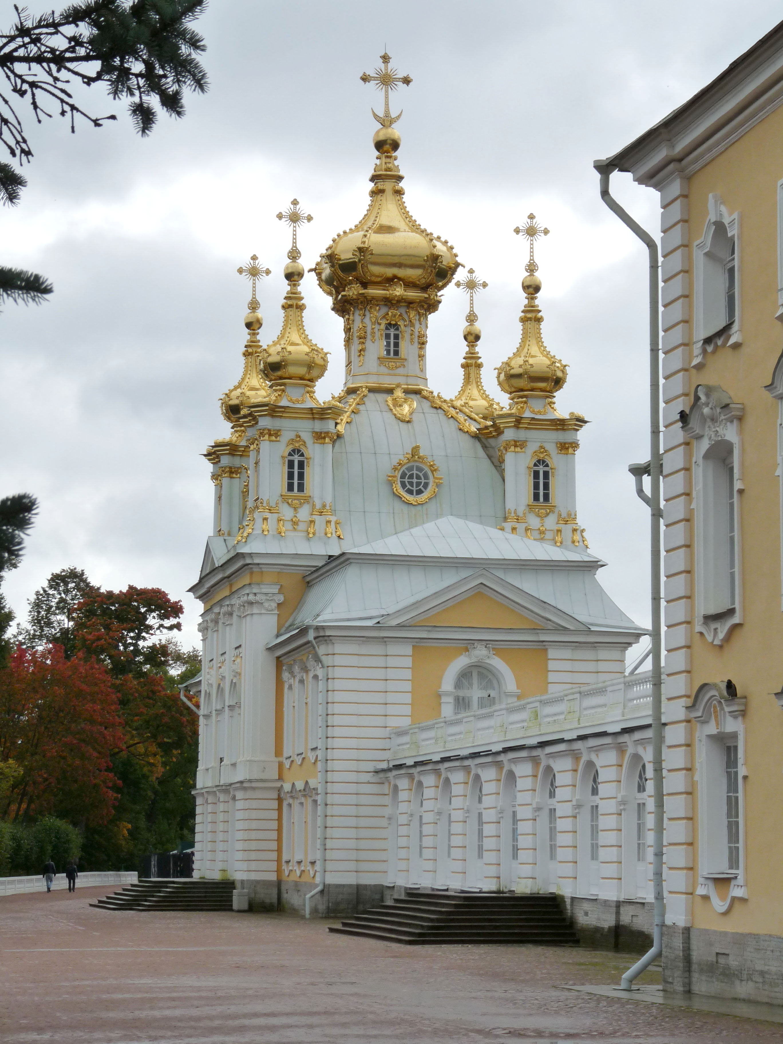 Peterhof 07